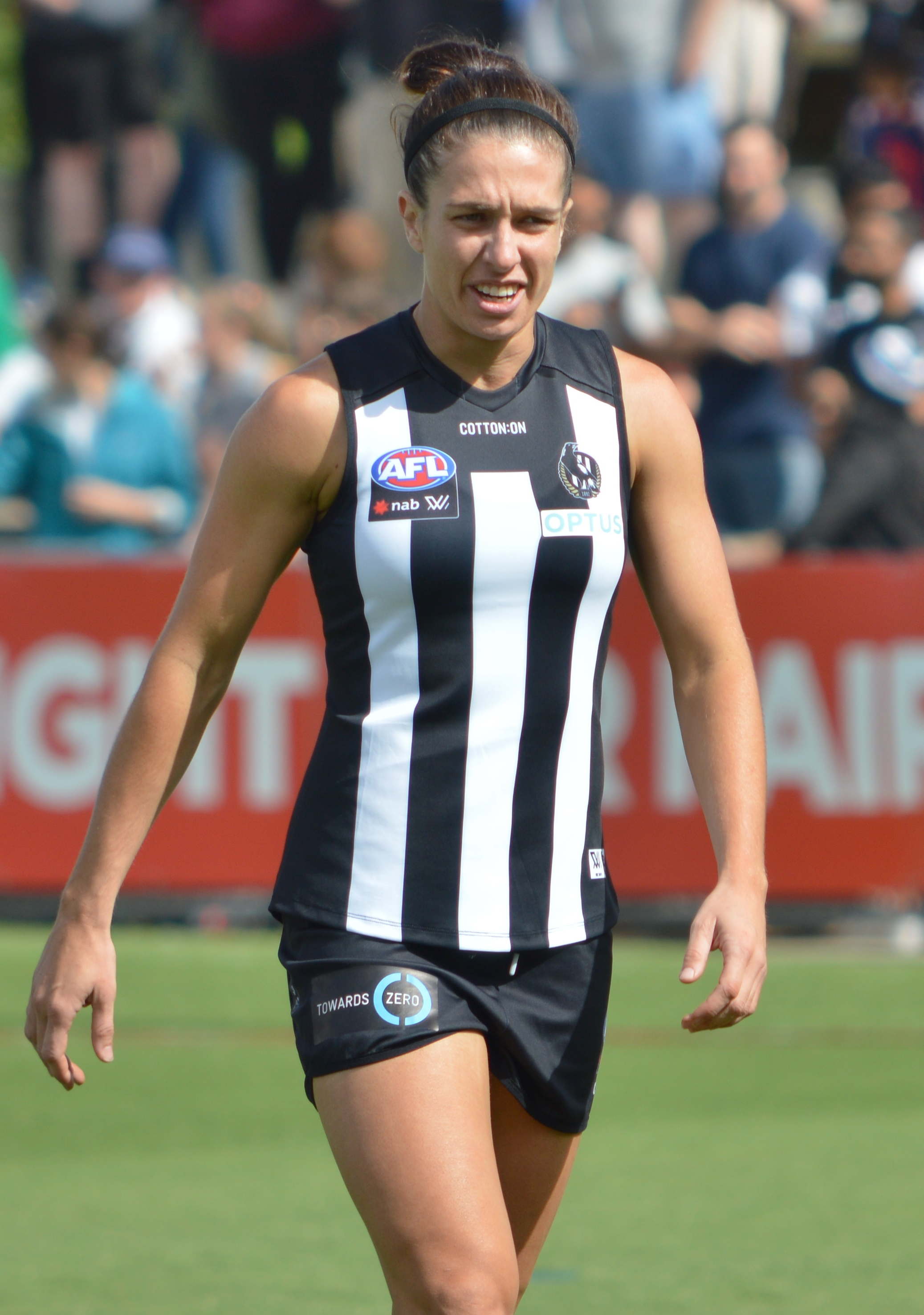 Ashleigh Brazill with Collingwood during a match against Melbourne at Victoria Park in round 2 of the 2019 AFL Women's season.